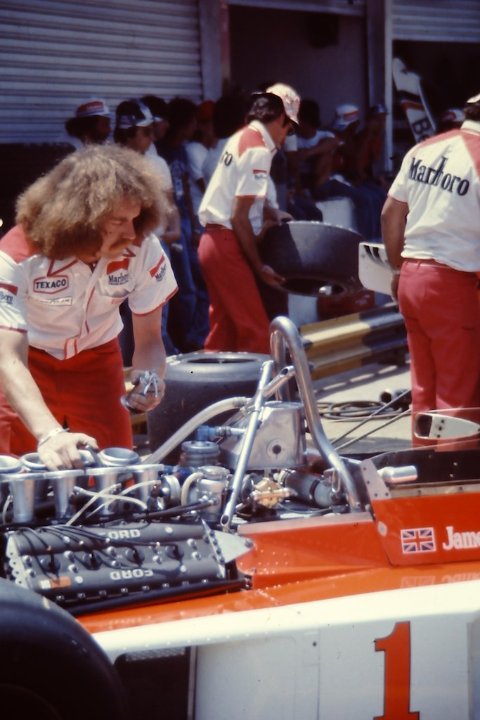 Some old pictures scanned from negatives. 77 Interlagos